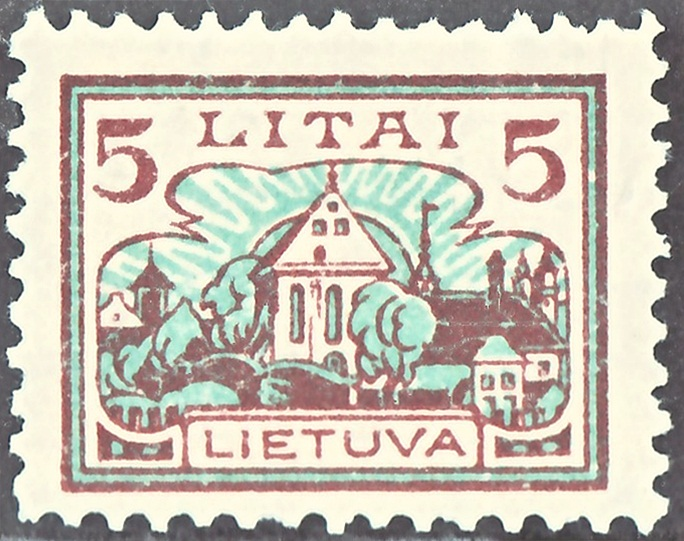 Stamp of Lithuania; 1923; 5 Litai; Michel No. 0195; Saint George church in Kaunas Watermark: 3 (little horizontal meshes) Color: (reddish) brown / light blue Nominal value: 5 Litai